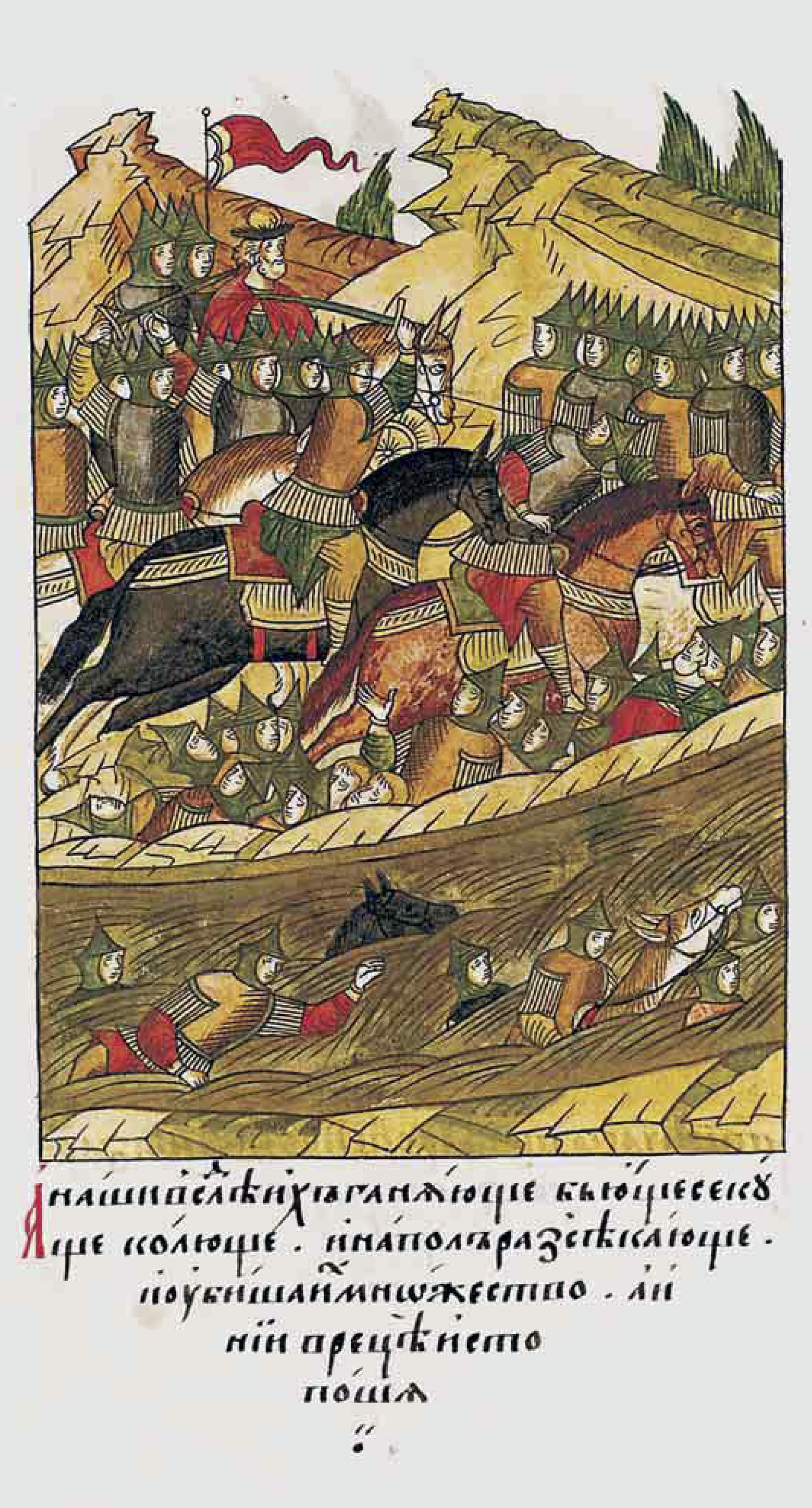 attle of the Vozha River 1378 "А наши воины погнали их, и били они татар, и секли, кололи, рассекали надвое, было убито множество татар, а иные в реке утопли."